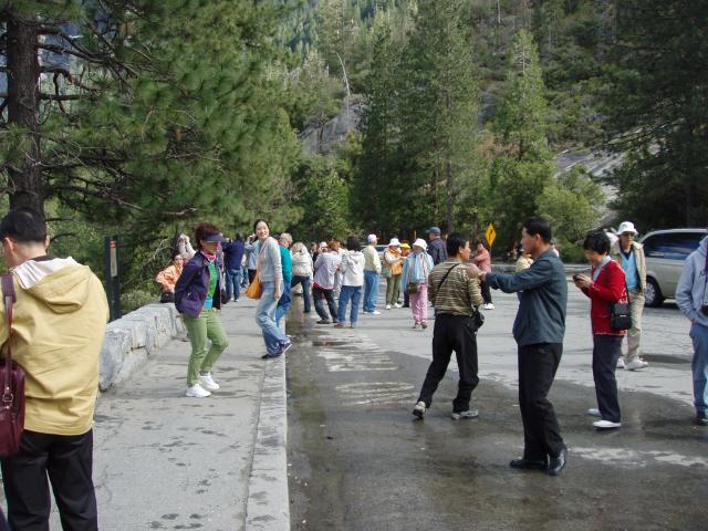 Tourists at Yosemite's Tunnel View